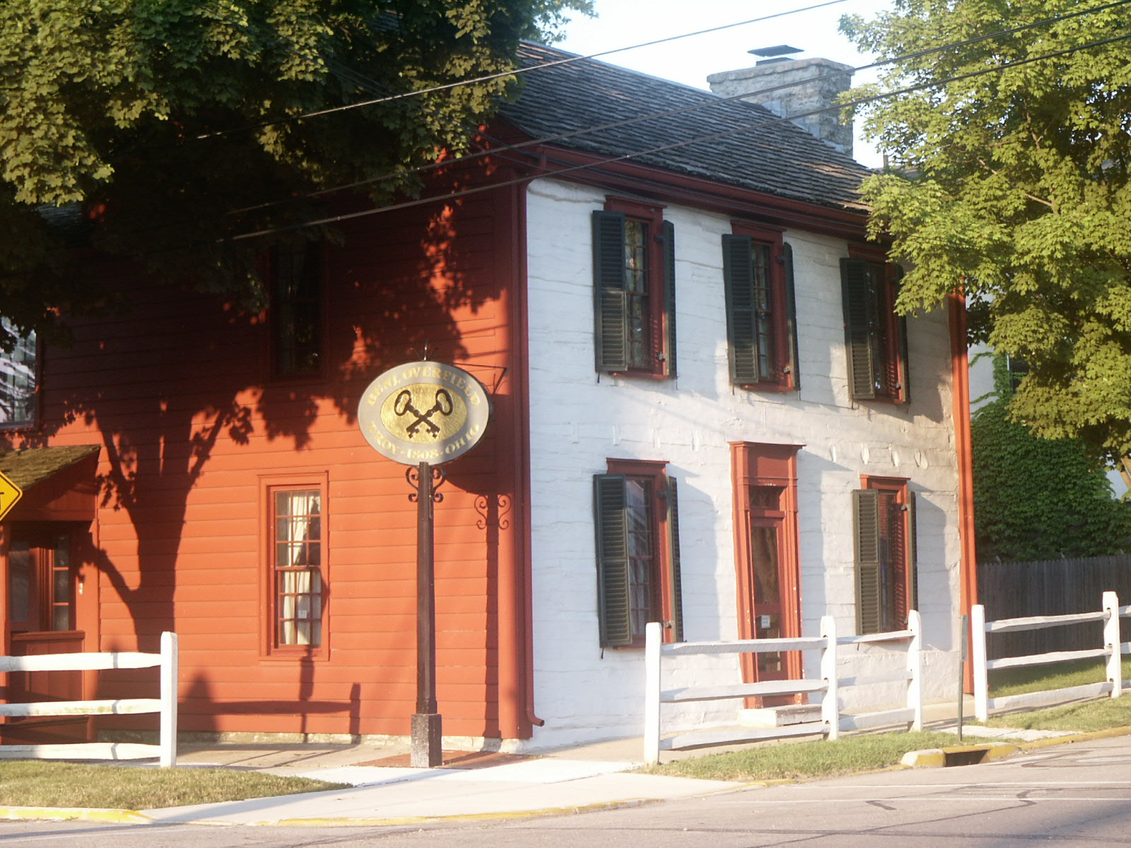 One of Ohio's oldest taverns built in 1808 by Pennsylvania native Benjamin Overfield. It is now operated as a museum.